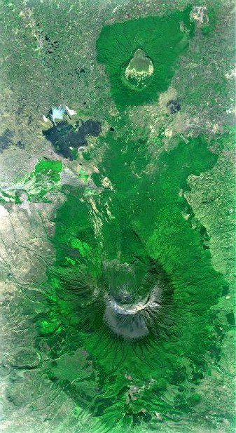 Mount Meru volcano, Tanzania and Ngurdoto Crater (image top) from space image description here Image courtesy: NASA/JPL-Caltech